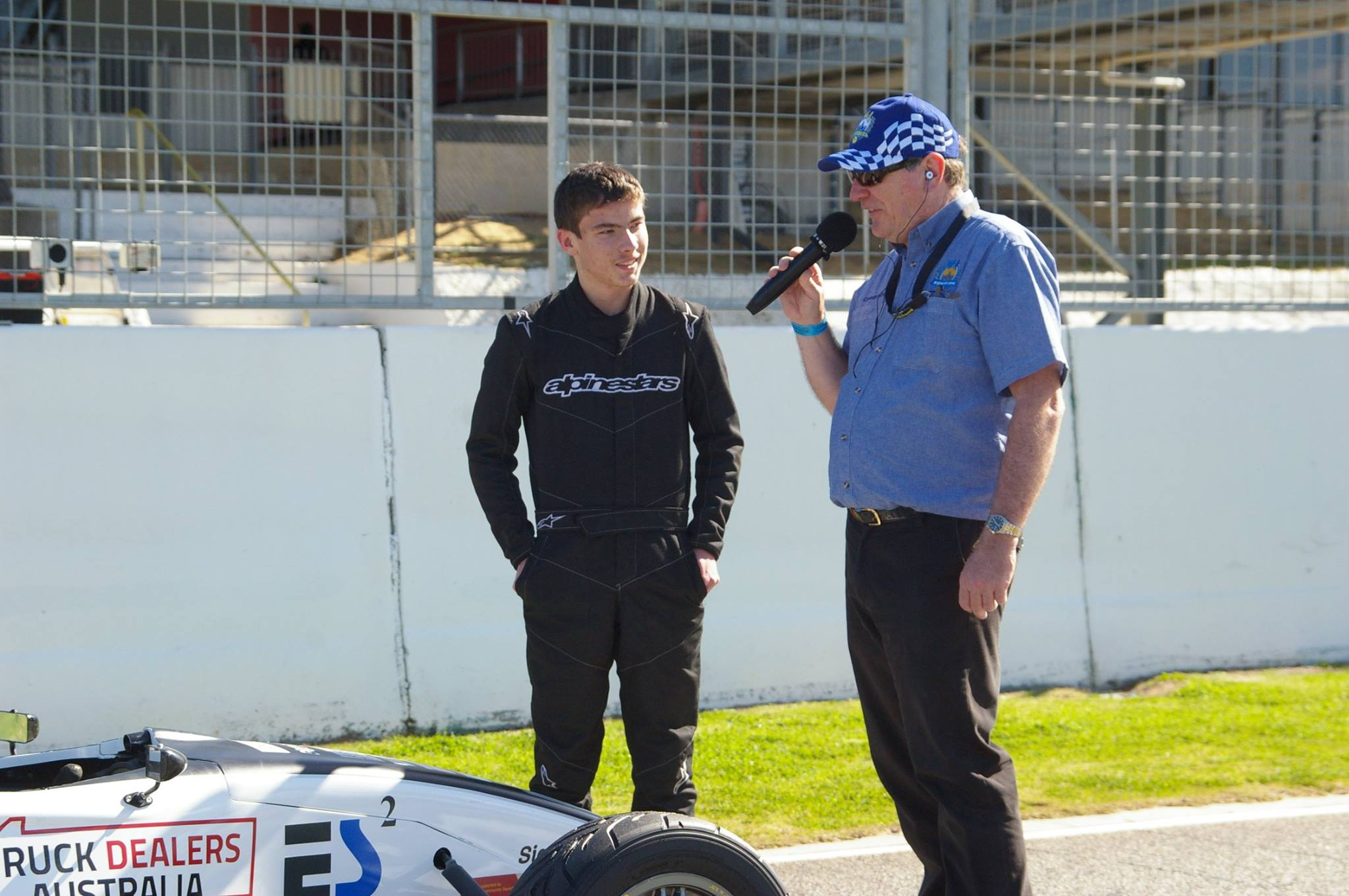 Calan Williams being interviewed on the start/finish straight of Barbagallo Raceway